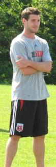 Chris Pontius at the 2009 MSI Classic Coach's Award Program at the Maryland Soccerplex